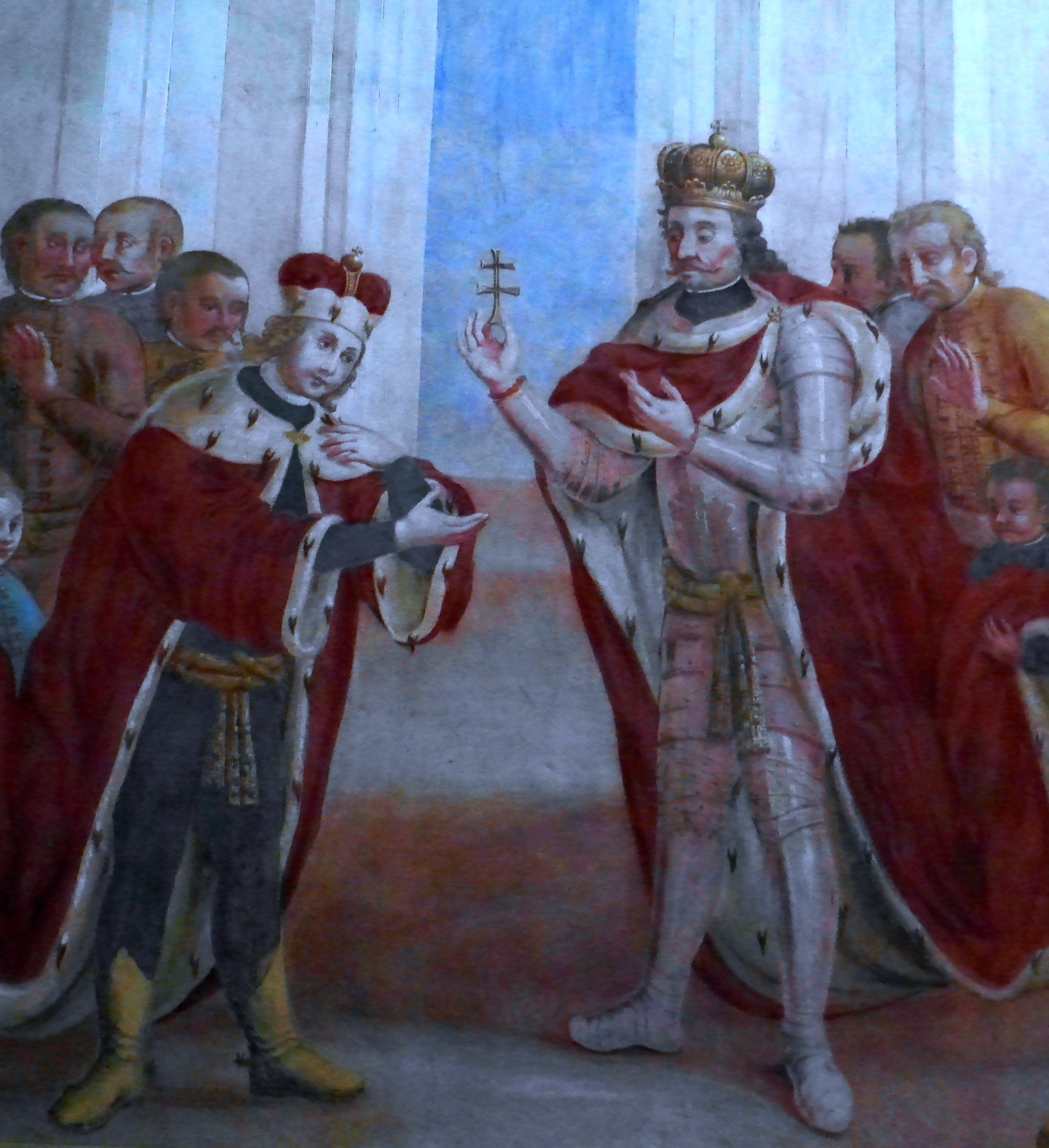 Stephen I of Hungary is giving Holy Cross relics to his son Saint Emeric, by Maciej Reichan 1782